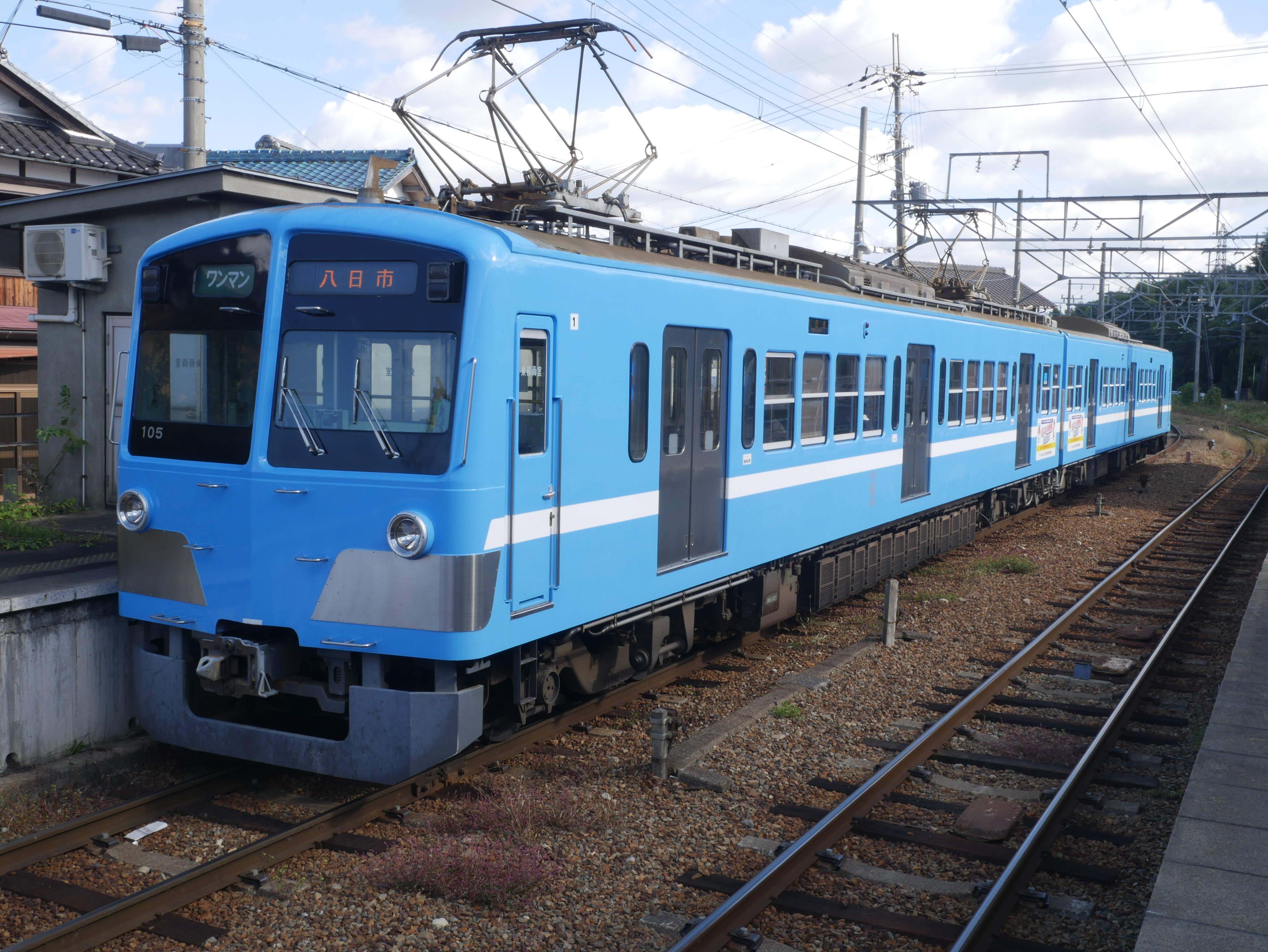 Ohmi railway 105 at Musa station